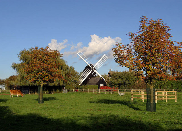 The post mill at Bourn, Cambridgeshire.